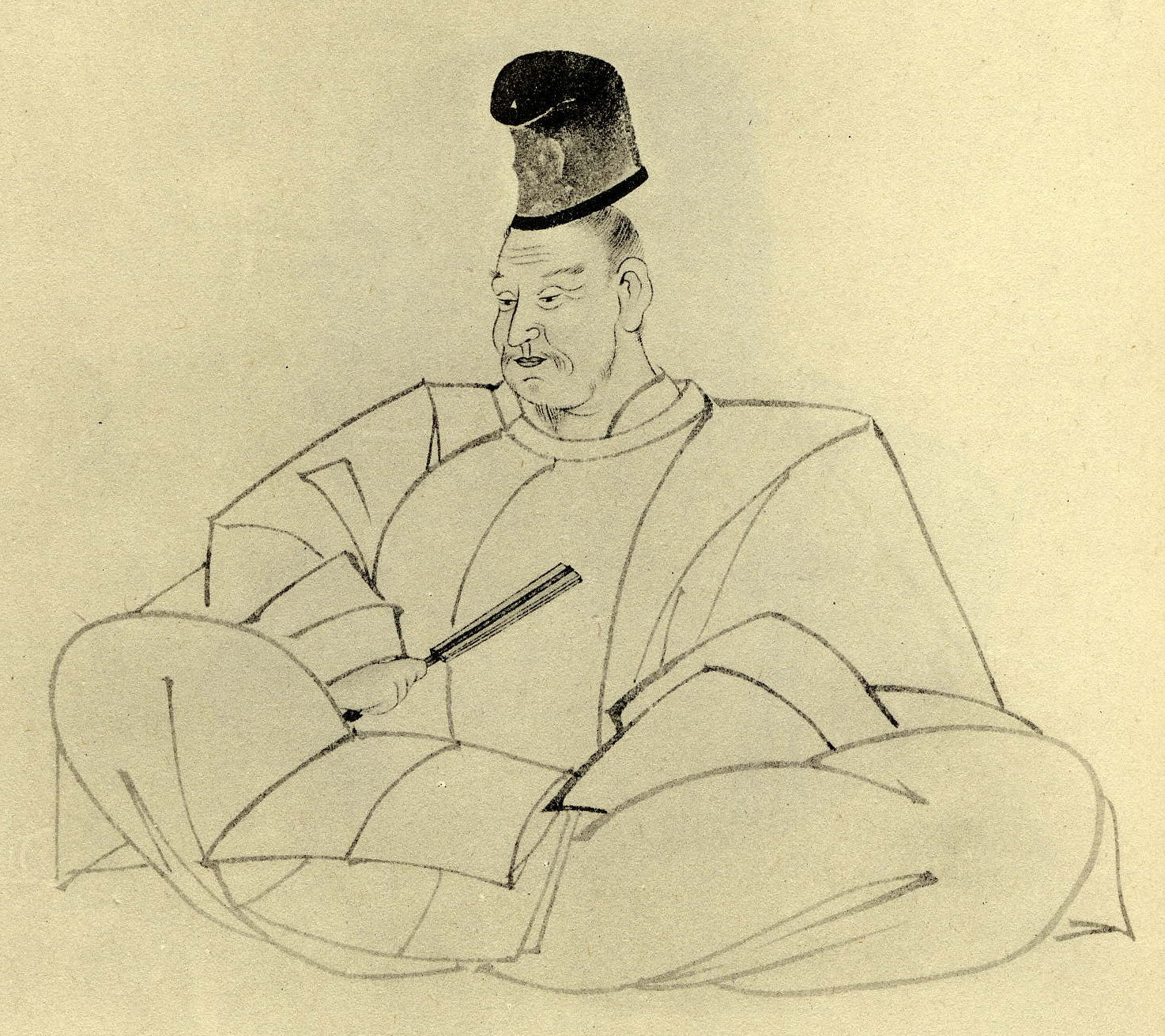 Kada no Azumamaro (荷田春満, 1669-1736) was a poet and philologist of the early Edo period